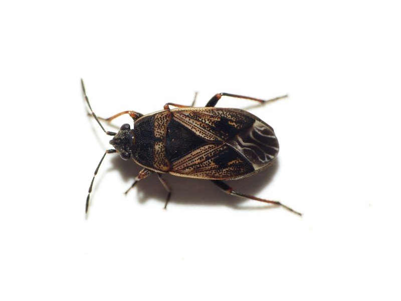 Trapezonotus dispar (Lygaeidae), Putten - Diermen e.o., the Netherlands